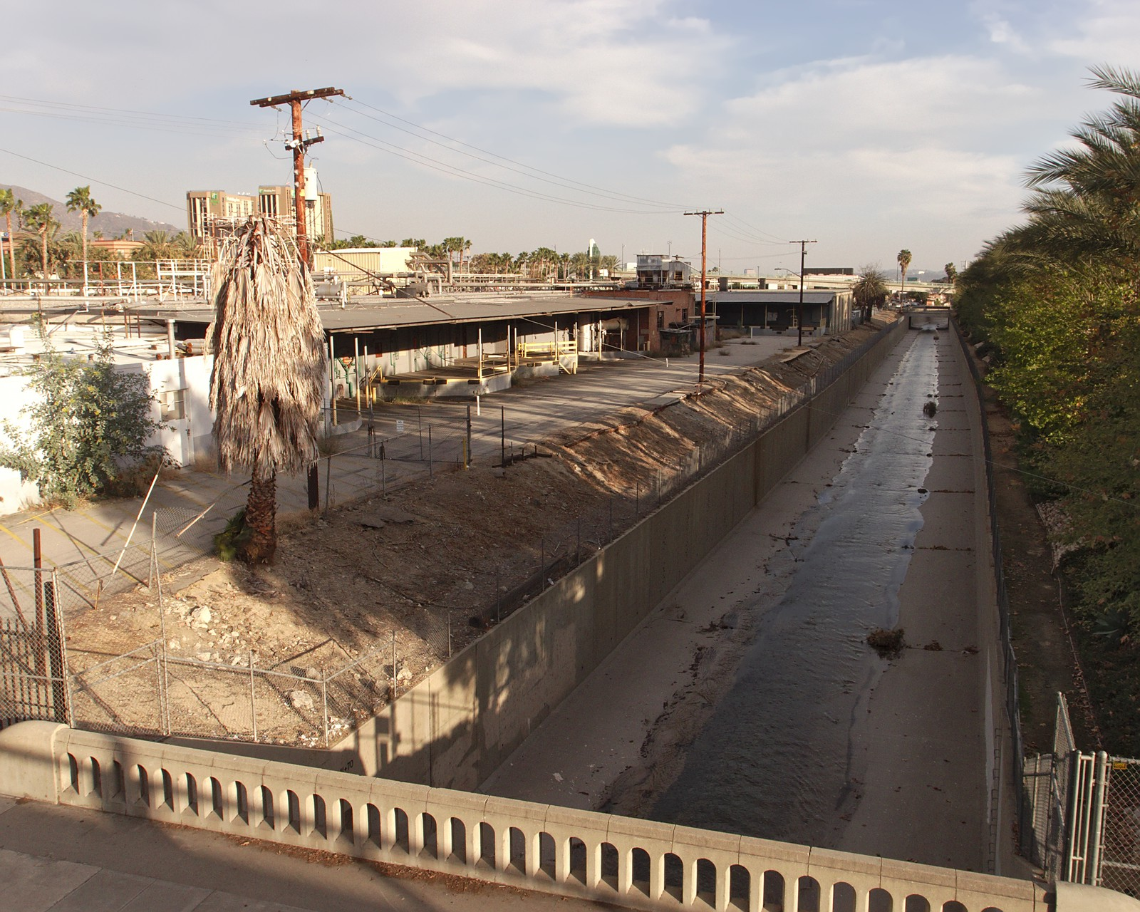 The Burbank Western Channel at Magnolia Blvd. looking south-east.